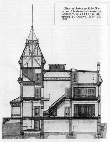 Plan of Interior Side Elevation Lieutenant-Governorr's Residence, Manitoba, 1881.